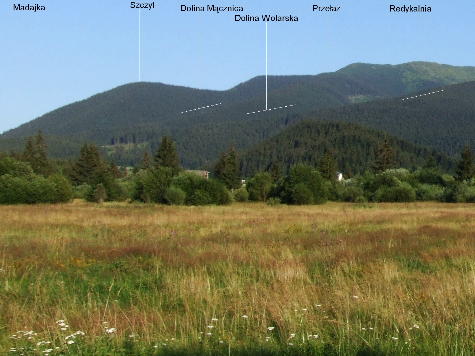 View from Zuberec